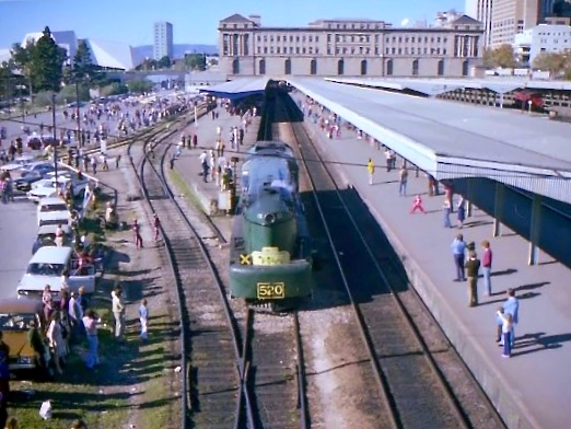 520 Sir Malcolm Barclay Harvey at Adelaide Station from pics of the SteamRanger "Festival of Steam", held at Adelaide Station and on the metro rail network on Sunday 21 May 1978.